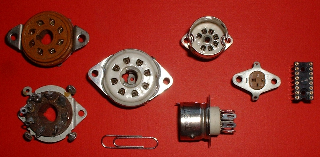 Various vacuum tube sockets. Left to right: octal (top and bottom), loctal, miniature (top and side). An early transistor socket and an integrated circuit socket are included for comparison. I took this picture. --agr 15:13, 24 Sep 2004 (UTC)